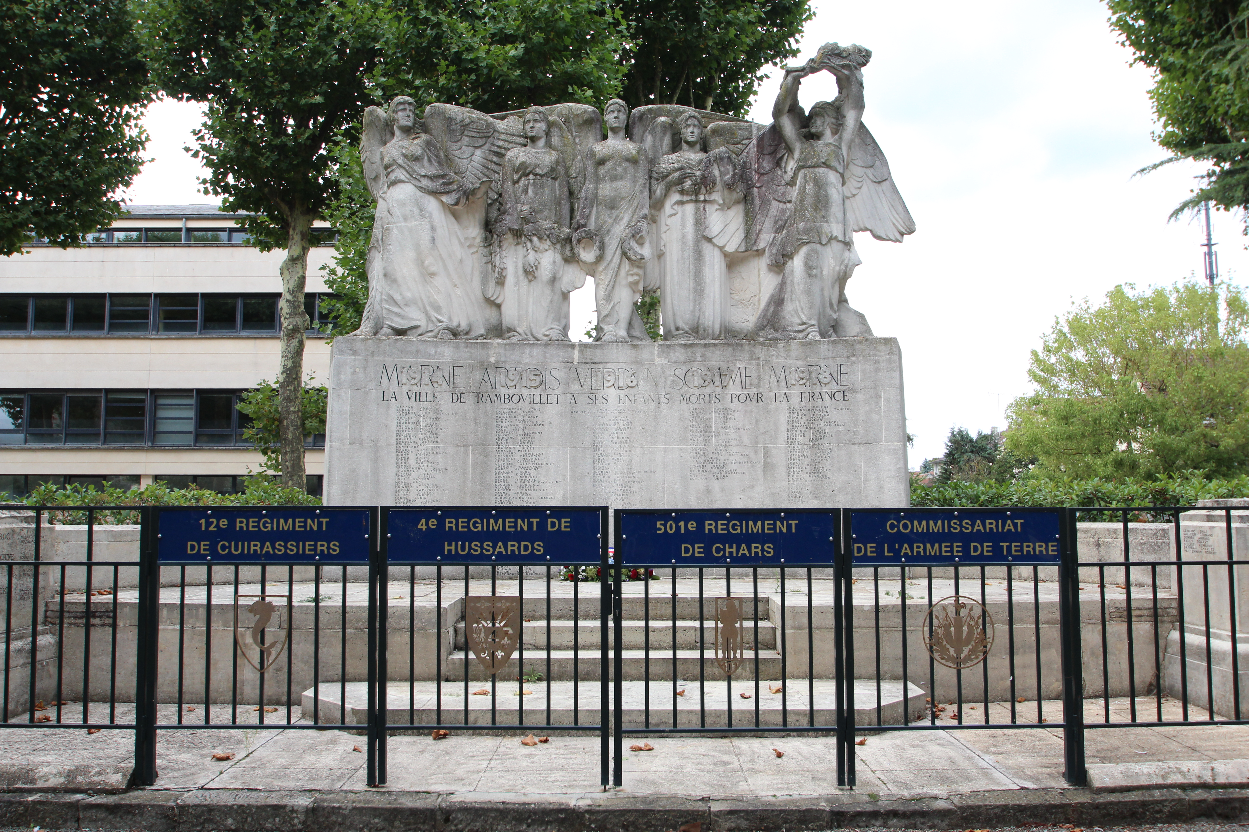 War memorial of Rambouillet, France